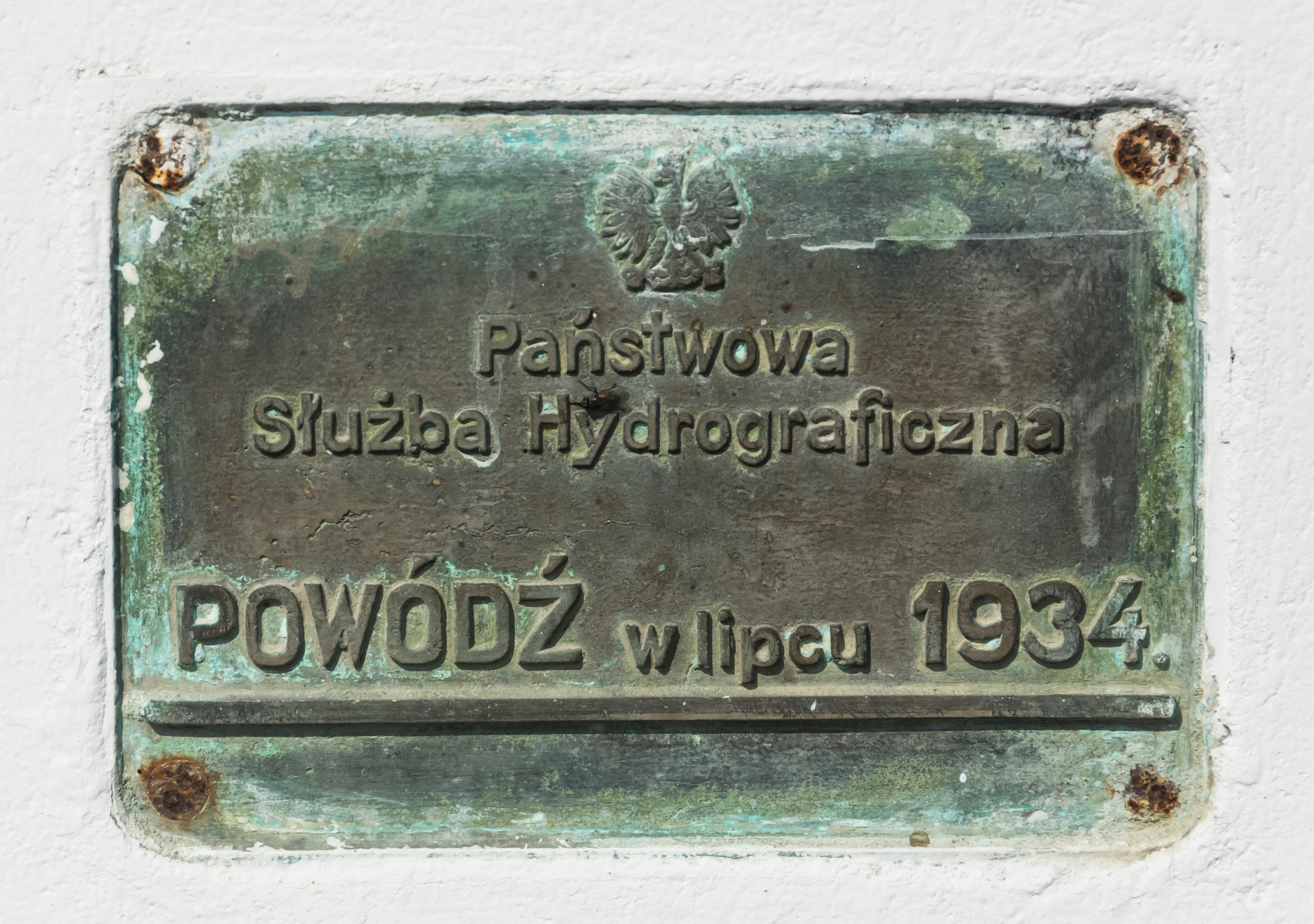 Roadside chapel in Przecław, plate with water during the flood in 1934